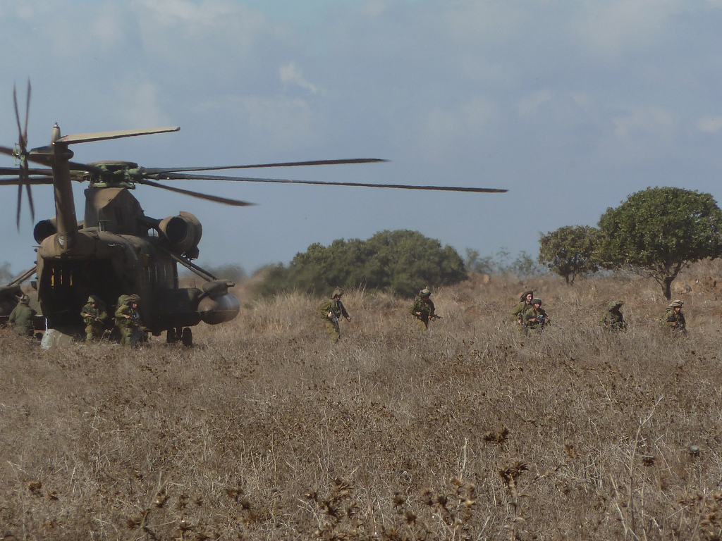 October 6, 2011 The reconnaissance company of the "Iron Trails" armored brigade conducted this month a particularly grueling training exercise, during which soldiers were tested both on the ground and in the air. Photo by Florit Shoihet, IDF Spokesperson Unit The Israel Defense Forces Facebook page The Israel Defense Forces blog Follow us on Twitter